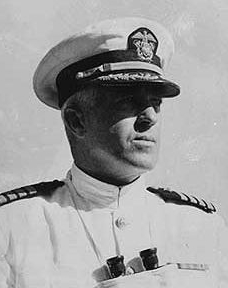 Captain Daniel Judson Callaghan on the bridge of his flagship USS San Francisco (CA-38), circa 1941-1942.